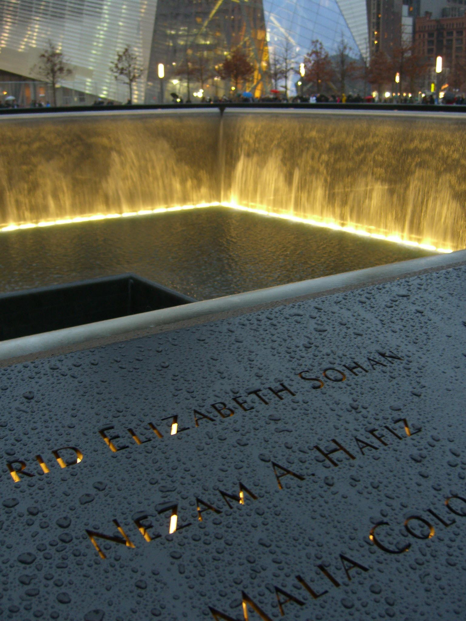 The name of 9/11 victim Nezam Hafiz inscribed in bronze on panel N-6 of the North Pool of the National September 11 Memorial in Manhattan, as seen on December 6, 2011. This photo was created by Luigi Novi. If you have any questions, you can contact me by sending me an email or User talk:Nightscream